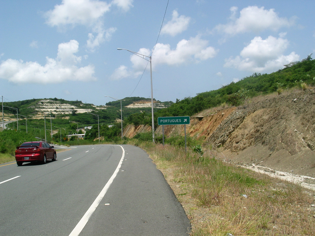 Puerto Rico Highway 9 (PR-9) near Barrio Portugues exit in Ponce, looking westbound